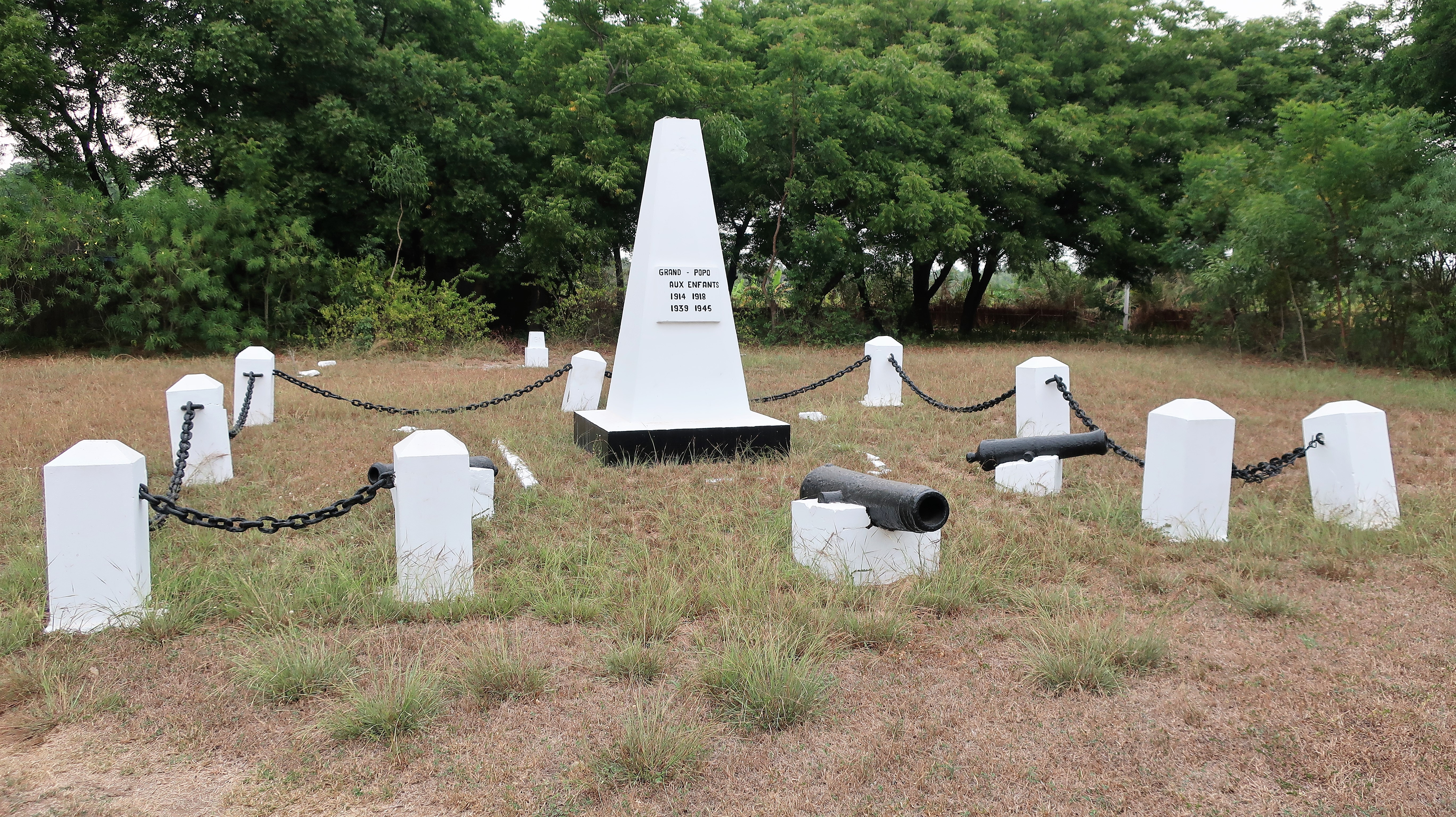 "Grand-Popo aux enfants": 1914-1918 1939-1945